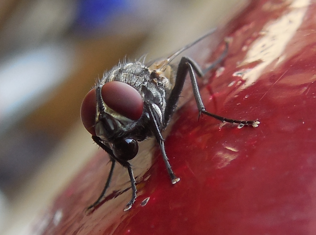 The frontal view of a housefly in Chennai, India.